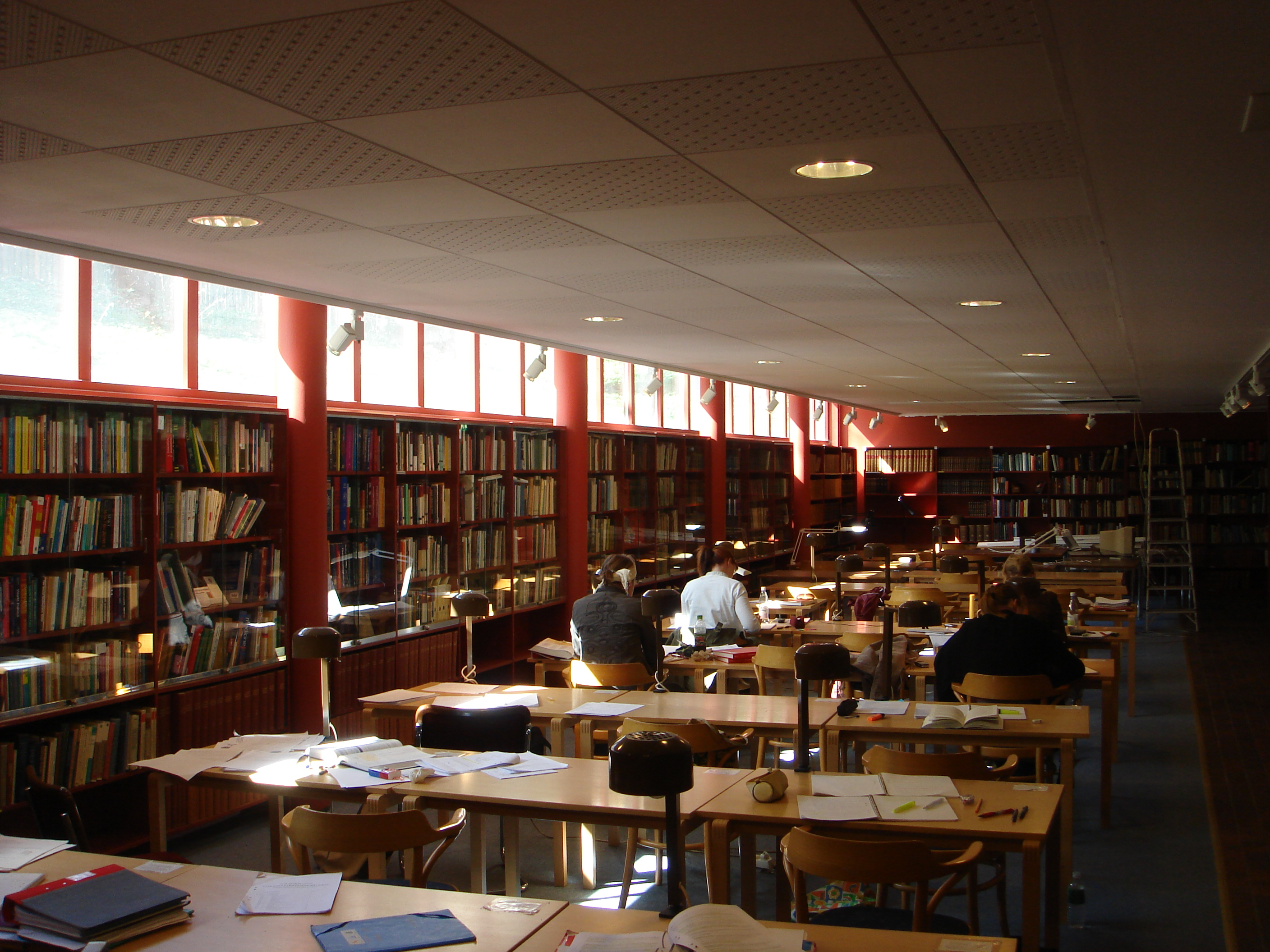 Norrlands nation. The library. Uppsala universitet. Photo.